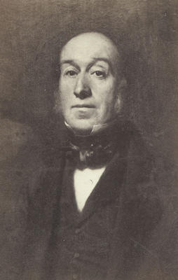 A portrait of James Beaumont Neilson of Queenslie (1792-1865).